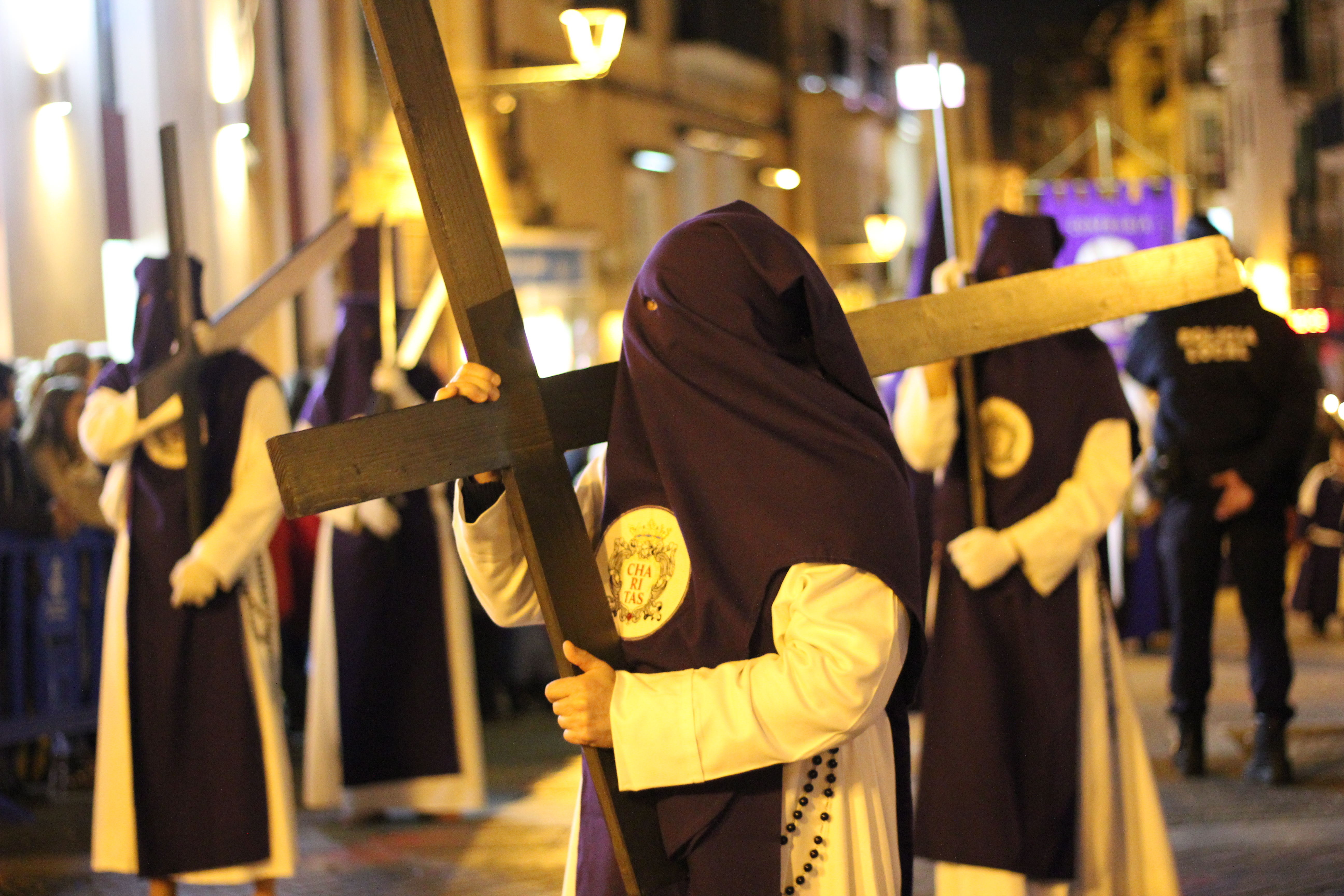 Penitent of a brotherhood during holy week's easter processions in Palma de Mallorca, 2016.